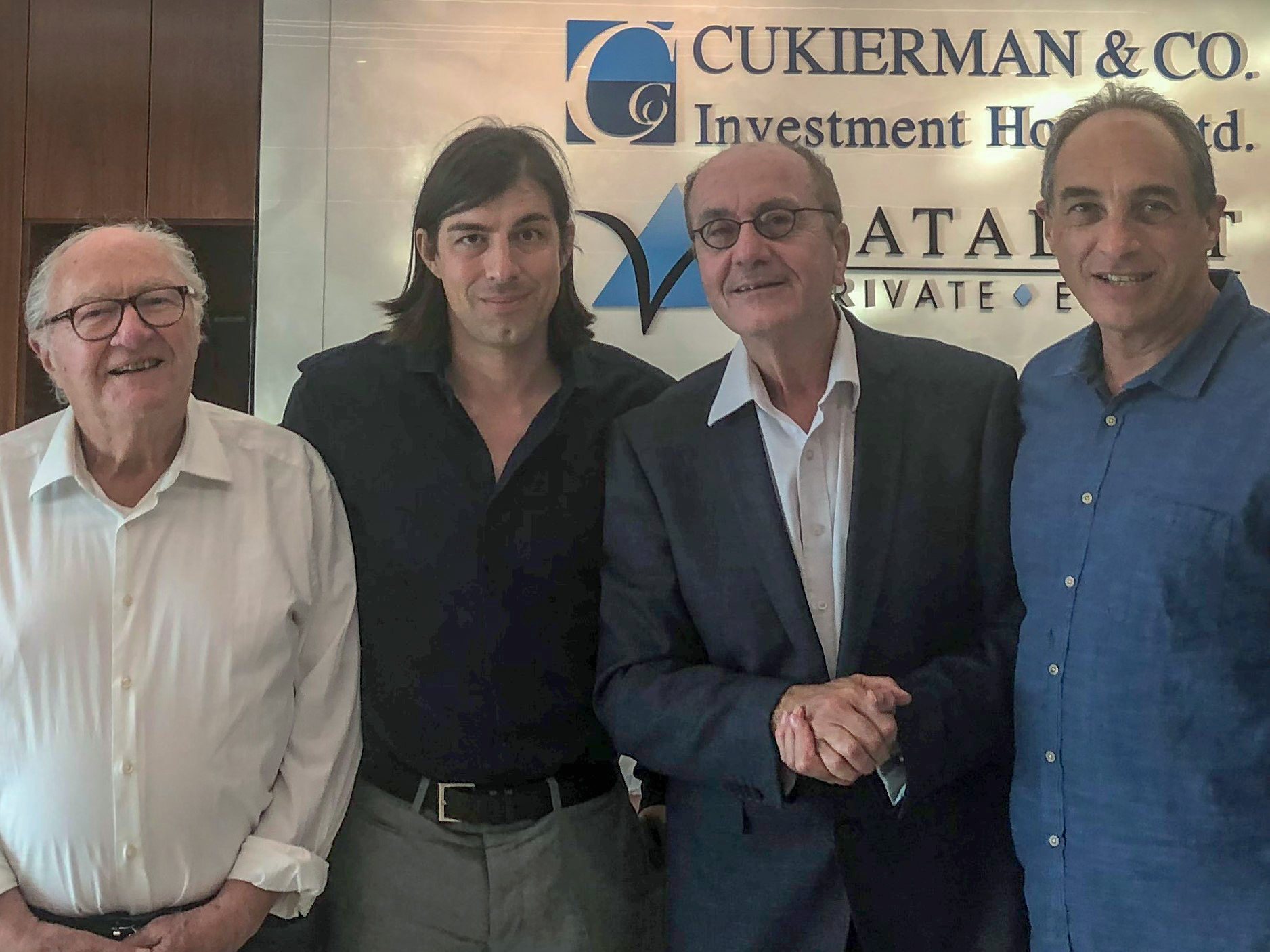 Roger Cukierman, Andreas Kaplan, Edouard Cukierman